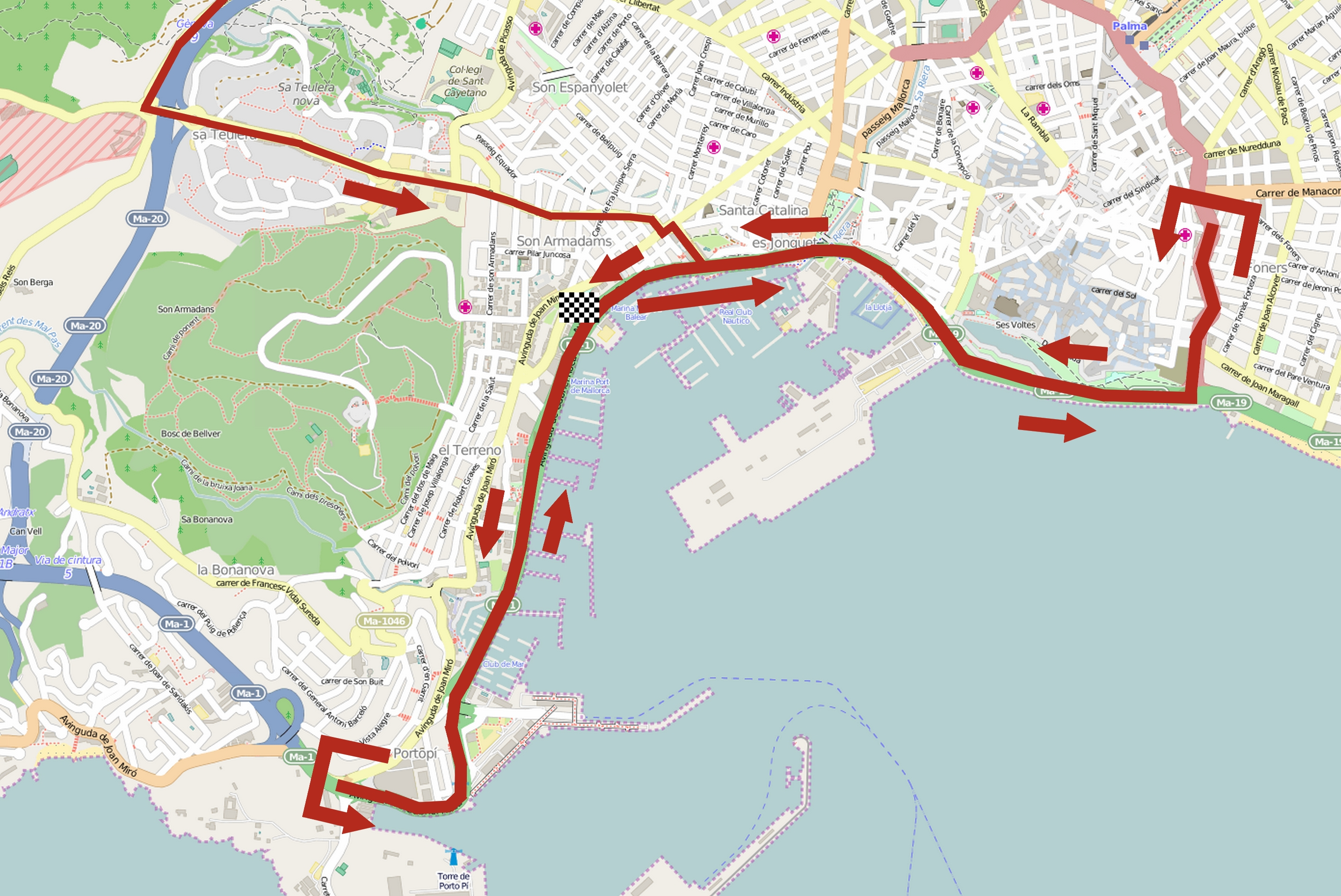 Parcours du Trofeo Playa de Palma du Challenge de Majorque 2015. This map may be incomplete, and may contain errors. Don't rely solely on it for navigation.